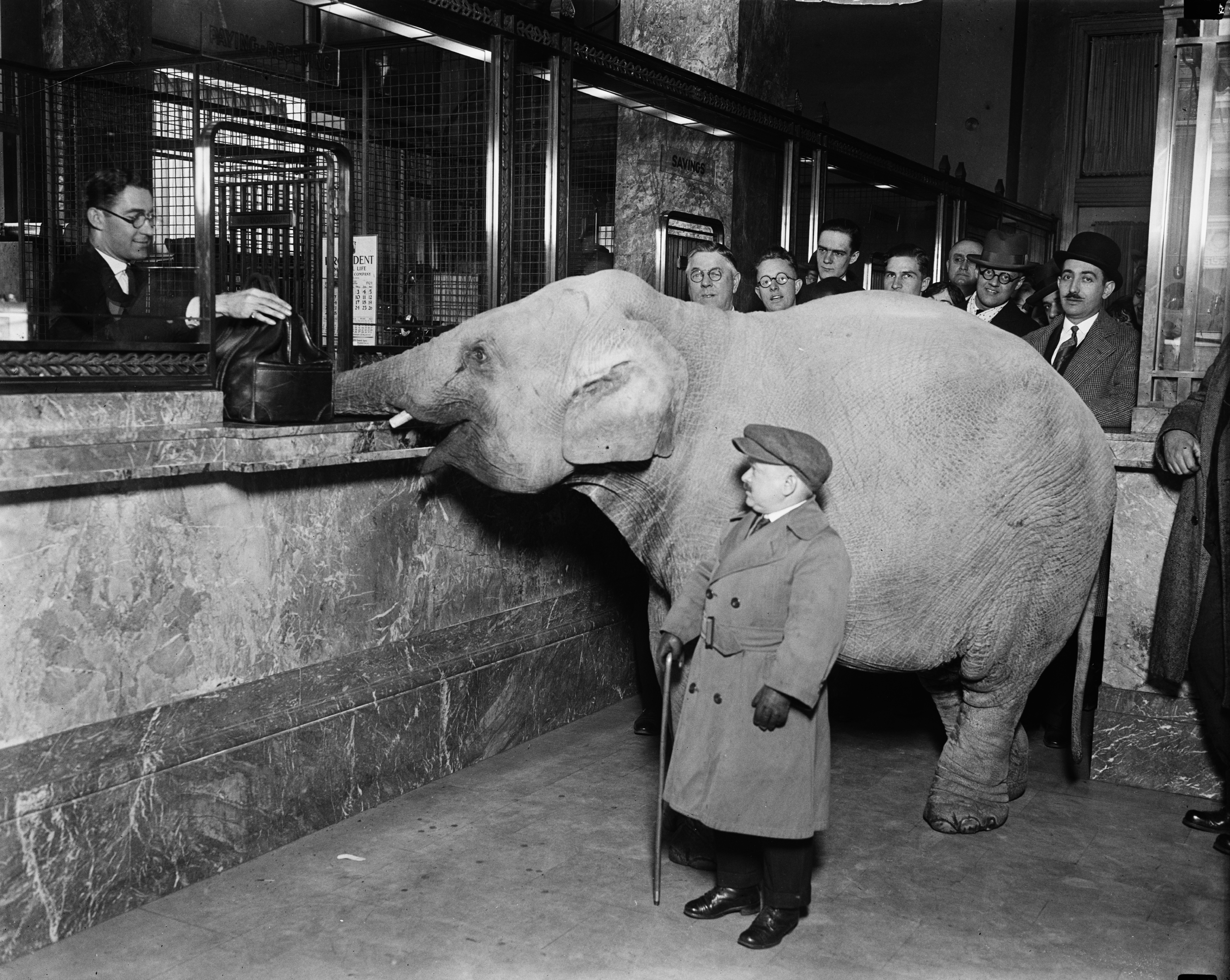 Charlie Becker, midget trainer with the Singer Midgets, walked the smallest elephant of his troupe to Merchant's Bank, and made a deposit for Keith's Theatre. The elephant delivered the money satchel directly to the receiving teller. Rights Advisory: No known restrictions on publication. Reproduction Number: LC-DIG-hec-44126 (digital file from original negative) Call Number: LC-H234- A-8166 [P&P]